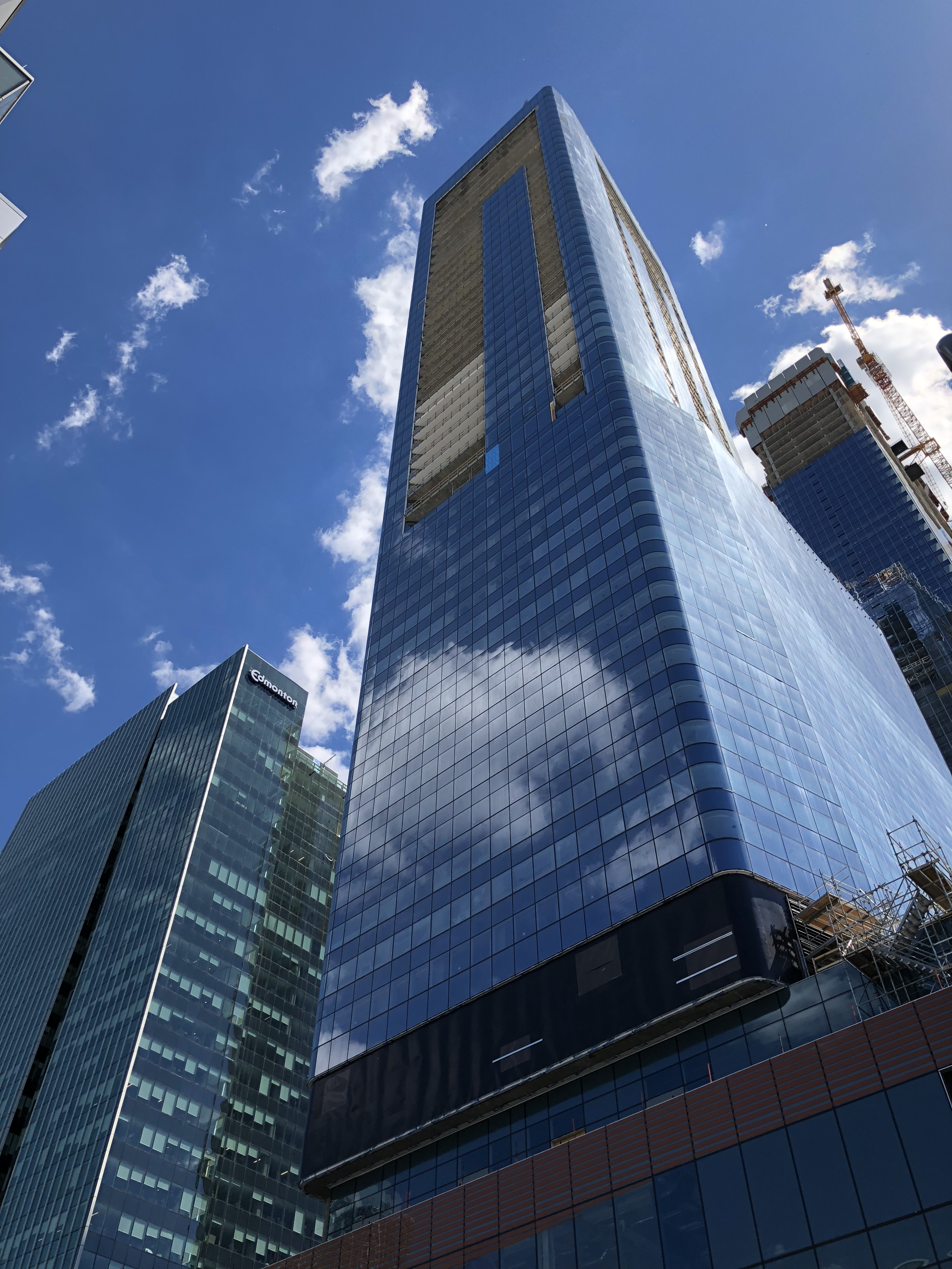 JW Marriott nearing completion in June of 2018